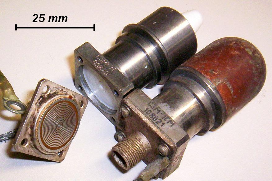 helical antenna, made for WLAN, operating in the range of app. 2,4GHz